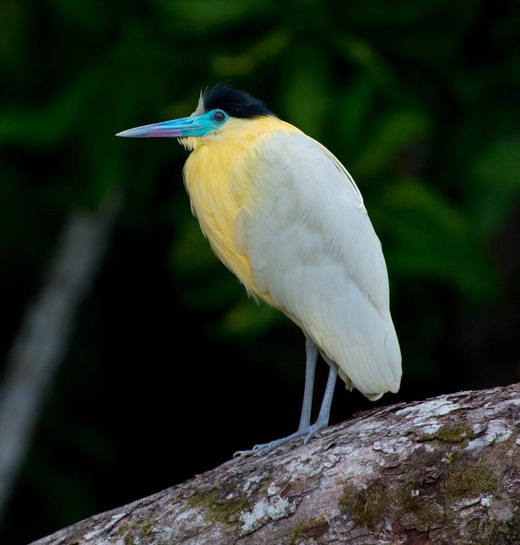 Pilherodius pileatus Capped Heron